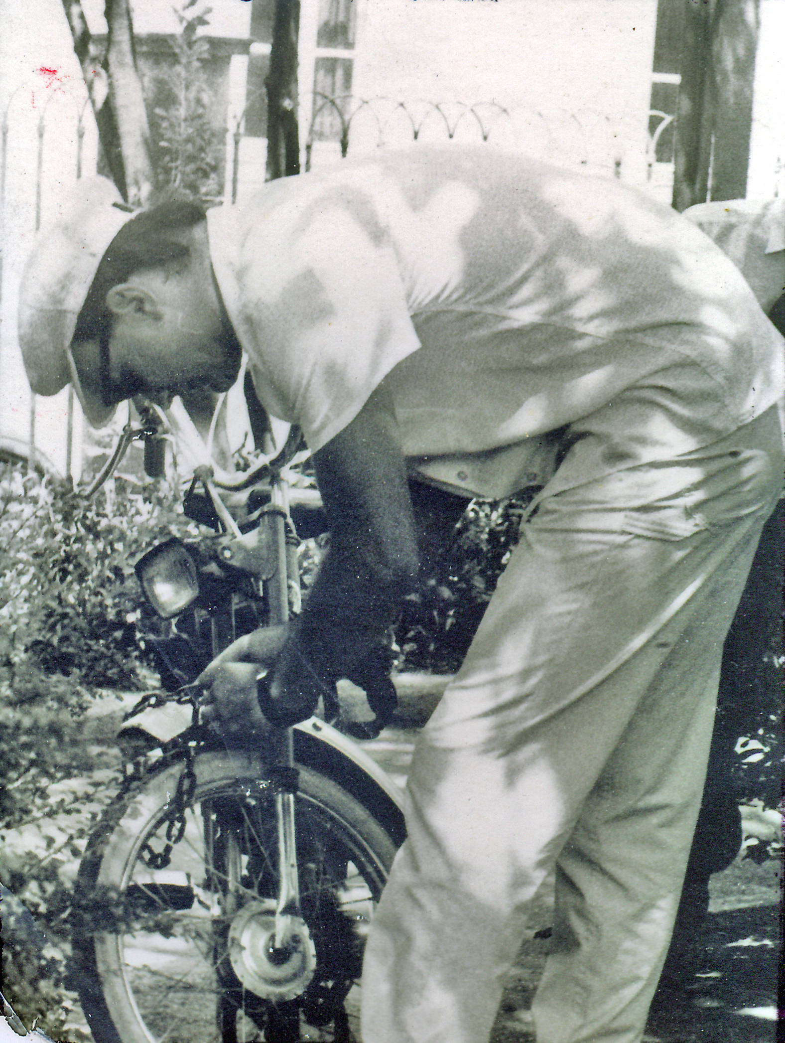 Mladen Vranešević, frontman of the band "Laboratorija zvuka" (Sound Laboratory)